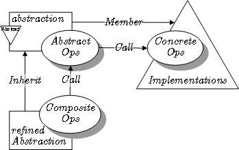 Bridge design pattern in the LePUS3 Design Description Language